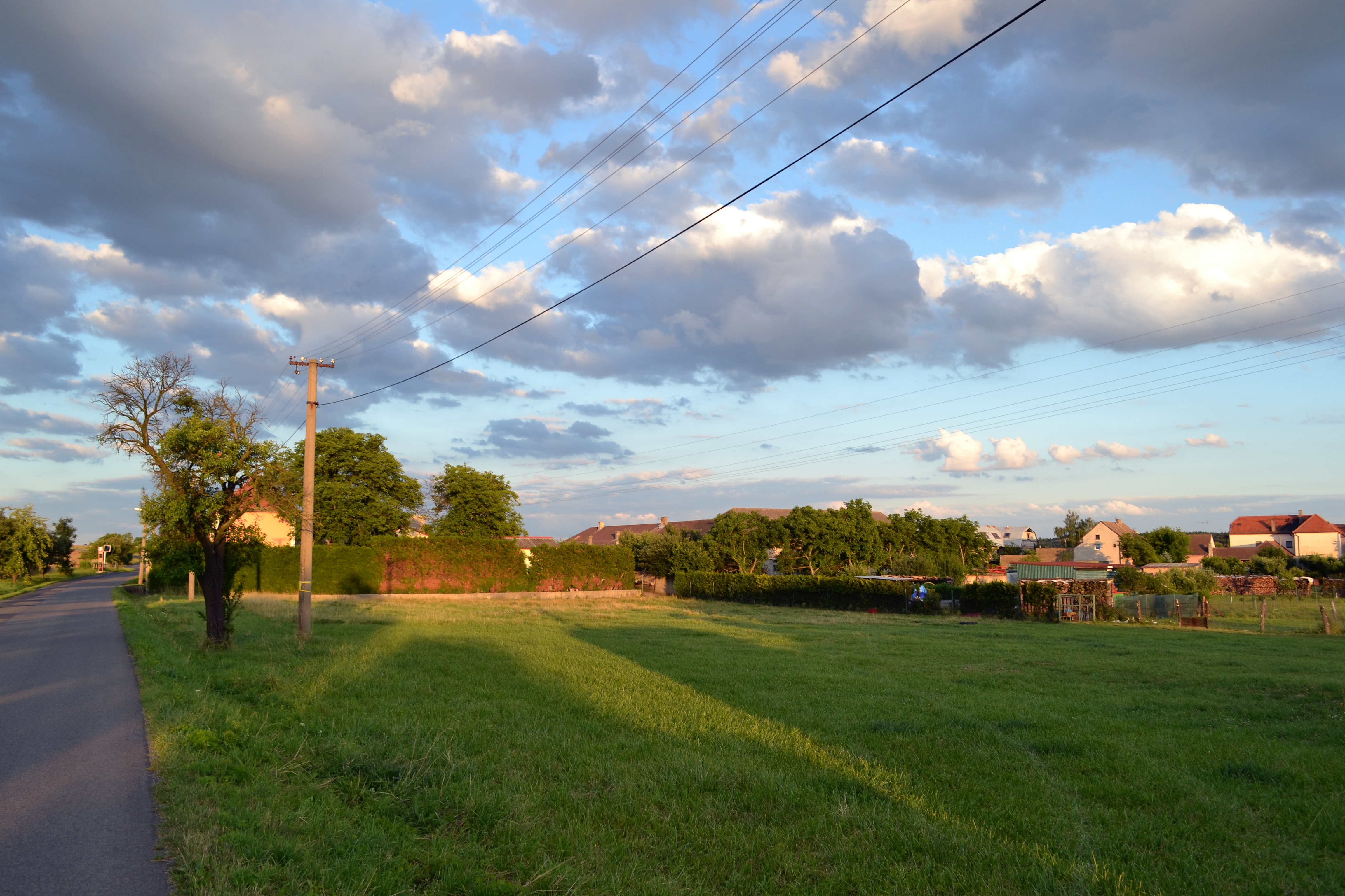 Kuchařík, part of the village Roblín, Central Bohemian Region, Czech Republic.